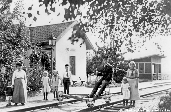 The old railway station in Lillån, Örebro, Sweden